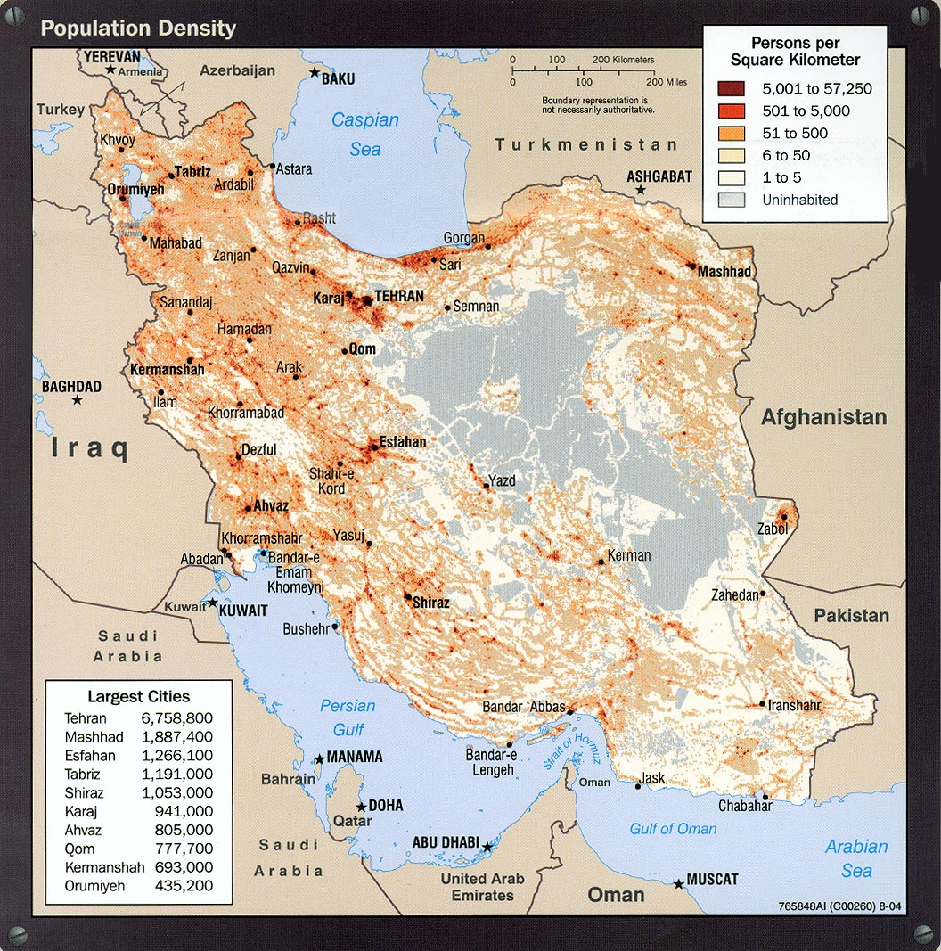 Iran Population Density Map 2004